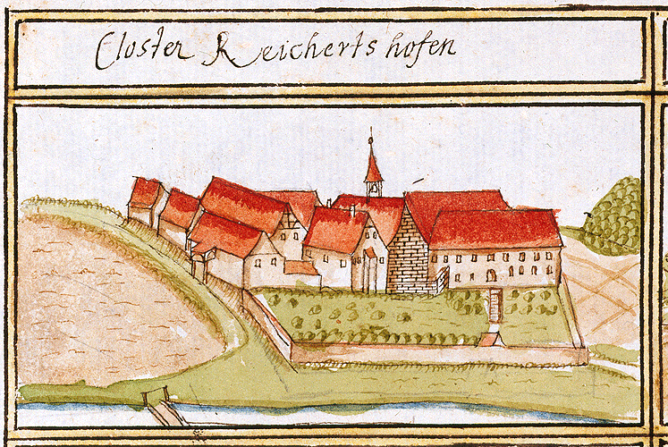 View of Rechentshofen, herzogliche Domäne, Hohenhaslach, Sachsenheim, from the forest register books created by Andreas Kieser